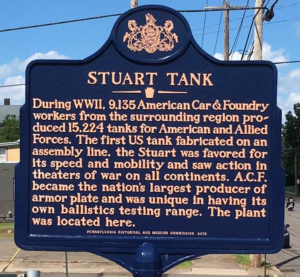 Pennsylvania historical marker telling about the production of Stuart tanks by American Car & Foundry in Berwick, PA